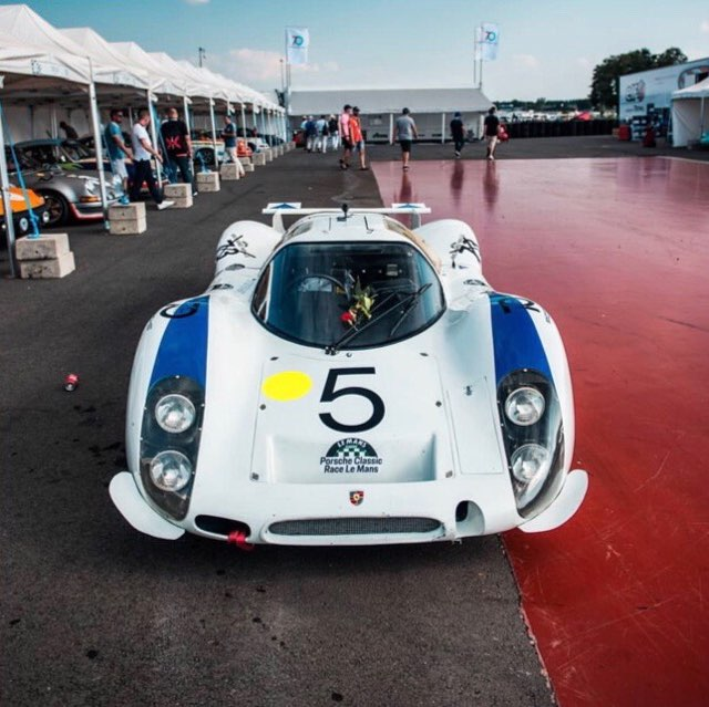 The 908 LH Porsche with which Evens won the 2018 Le Mans Classic